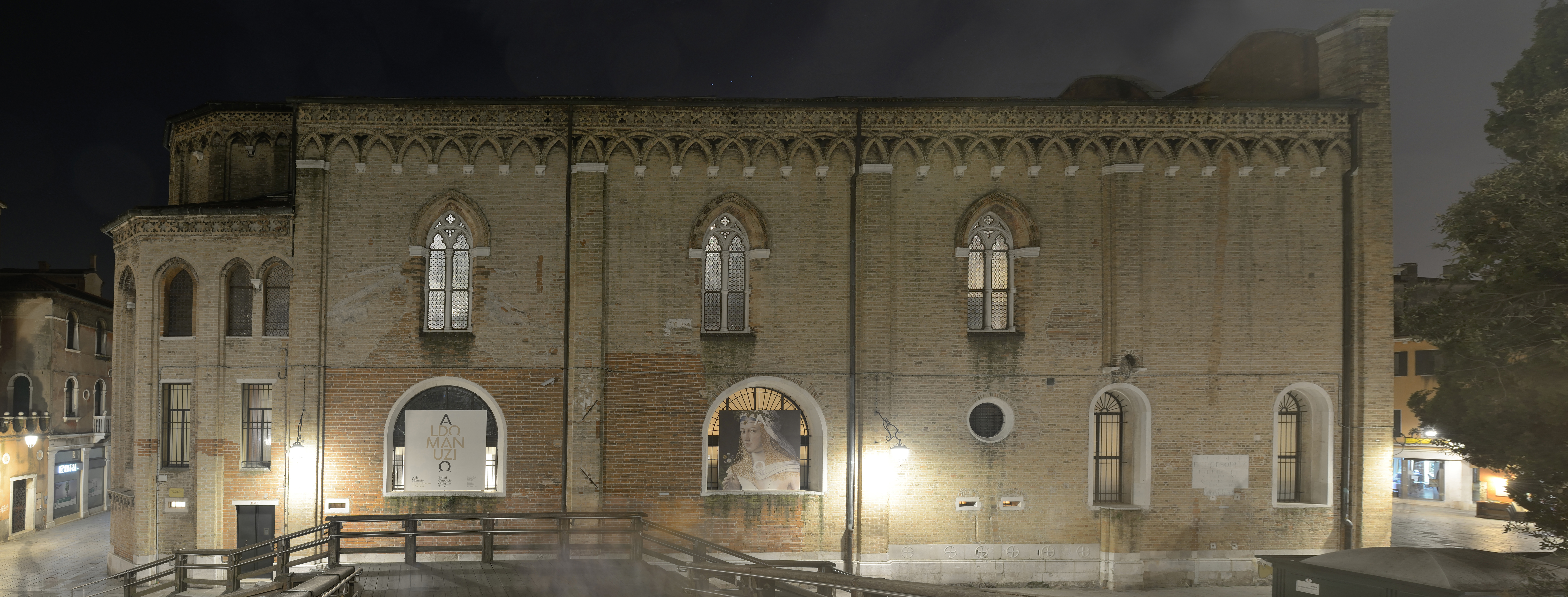 Night view of the north facade of the Chiesa di Santa Maria della Carità church, part of the Gallerie dell'Accademia in Venice.